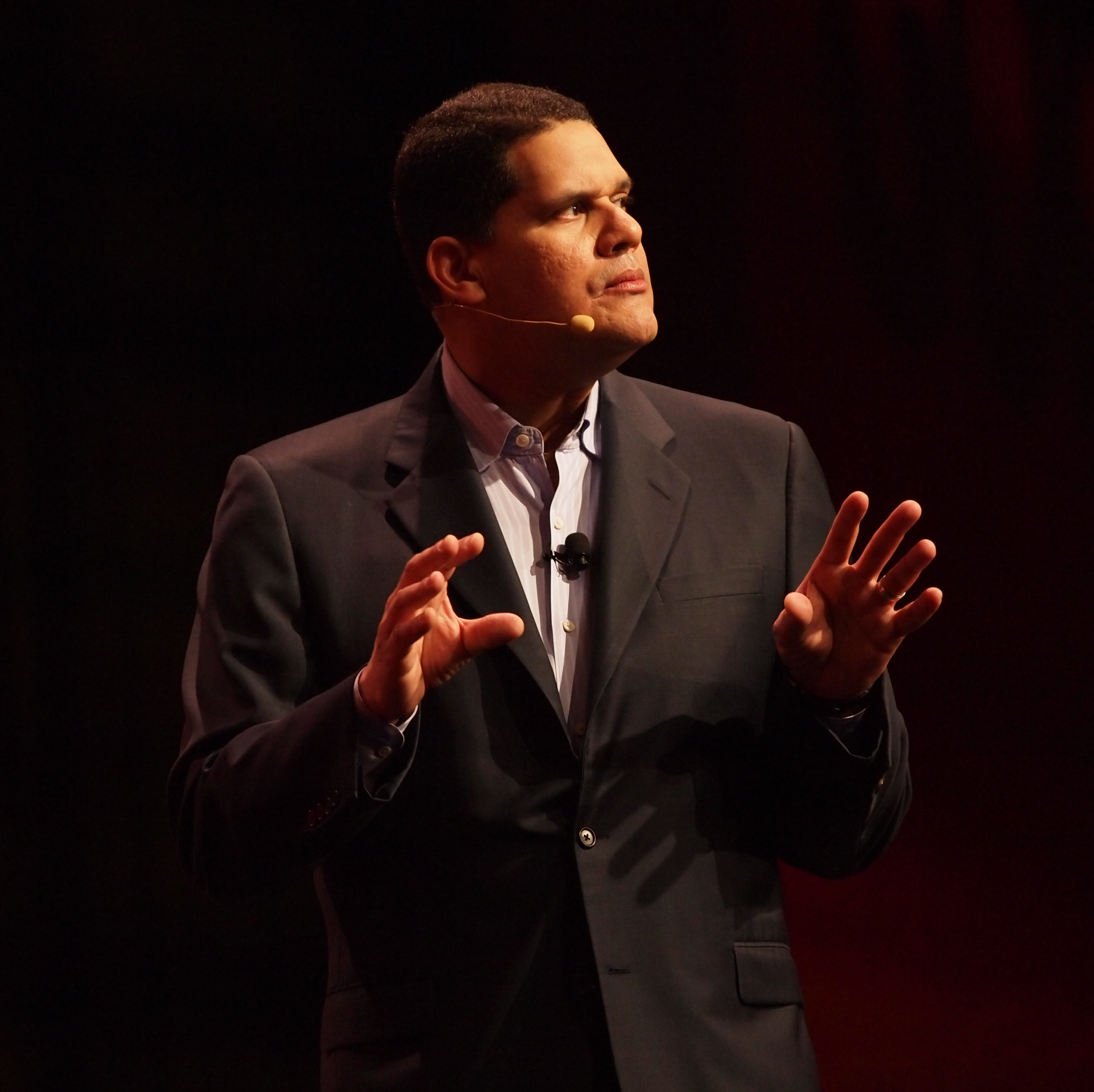 Reggie Fils-Aime at the Game Developers Conference in 2011 (third day), during the session "Video Games Turn 25: A Historical Perspective and Vision for the Future".